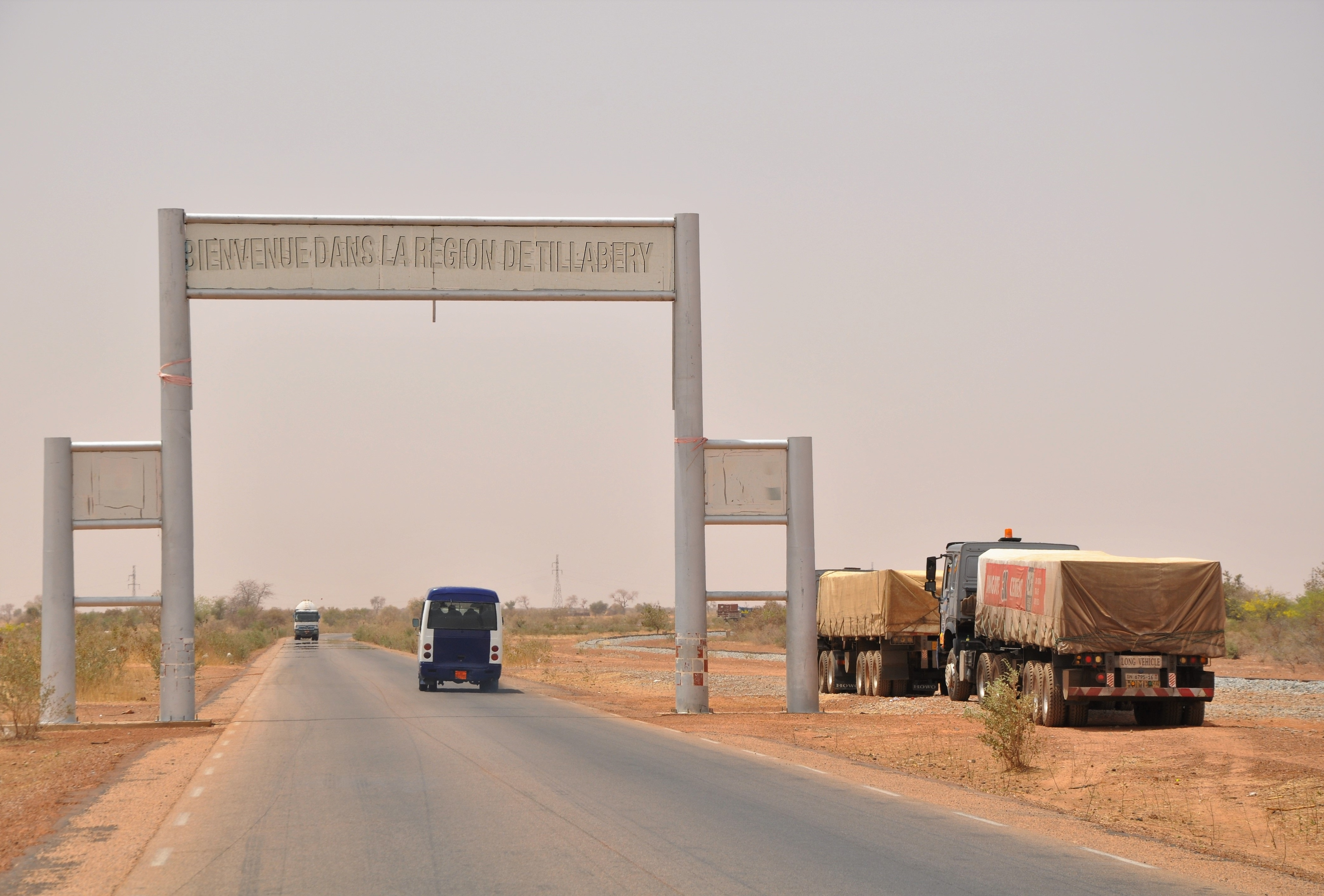 Traffic passes a porch over the National Road (Route Nationale) No.1 in Niger. This porch marks the spot where the road crosses from the Dosso Region into the Tillabéri Region. This point lies some 72 km east of Niamey and 1 km west of the village of Kodo.